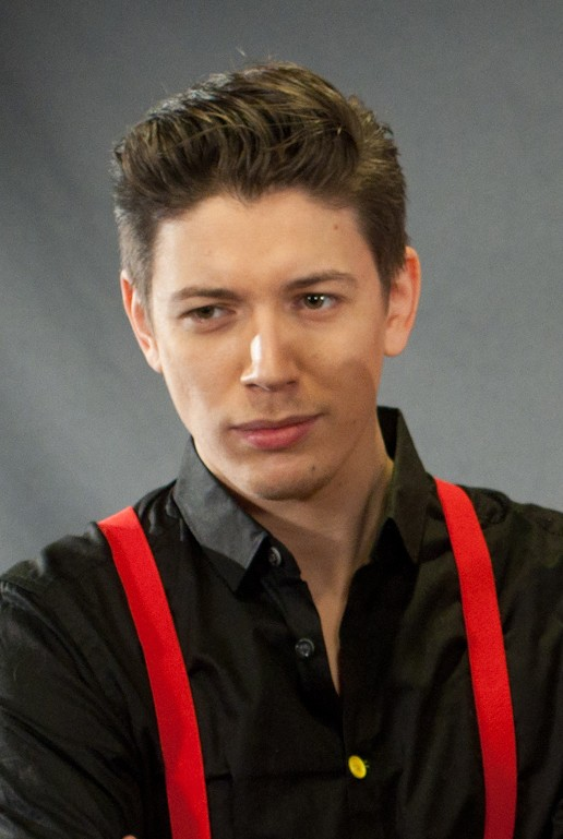 Anton Malmberg Hård af Segerstad 2010 at a press conference for Melodifestivalen 2011